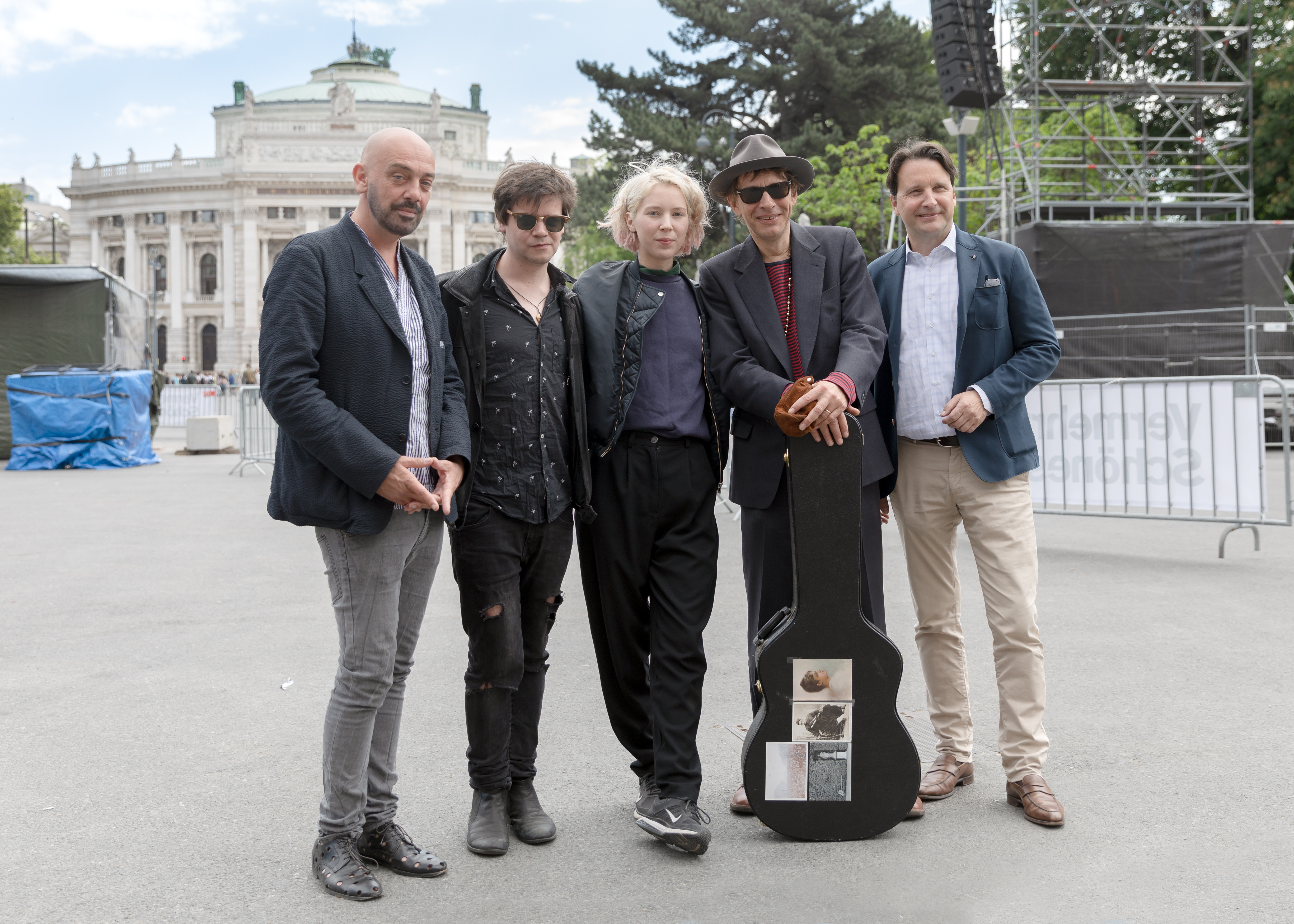 l.t.r.: Tomas Zierhofer-Kin, Der Nino aus Wien, Mira Lu Kovacs, Ernst Molden and Martin Traxl at a press conference for the Vienna Festival 2018 (Rathausplatz, Vienna, Austria).